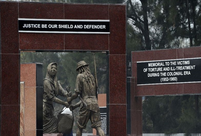 A memorial in honour of victims of torture, including Esau Khamati Oriedo, during the British colonial era.